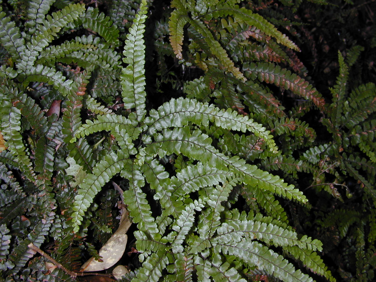 Adiantum hispidulum (habit). Location: Maui, Makawao Forest Reserve